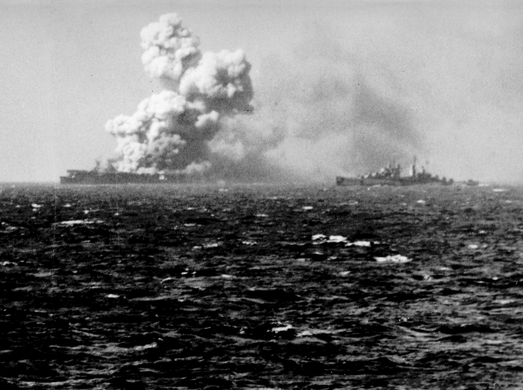 Torpedoes aboard the U.S. Navy light aircraft carrier USS Princeton (CVL-23) explode on 24 October 1944, after she was bombed by a Japanese aircraft during the Battle for Leyte Gulf. The light cruiser USS Reno (CL-96) is visible on this side of the Princeton.